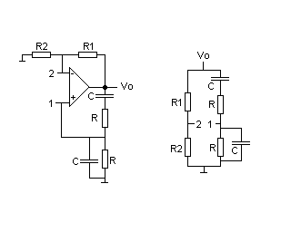 Wien bridge oscillator